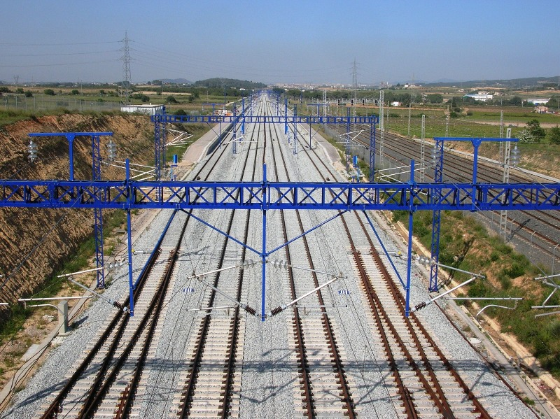 PAET (Spanish Puesto de adelantamiento y estacionamiento de trenes, Abbr. PAET) station of l'Arboç, view northeast. This is one of the stations where trains can wait to be overtaken, for maintenance vehicles and for emercencies.